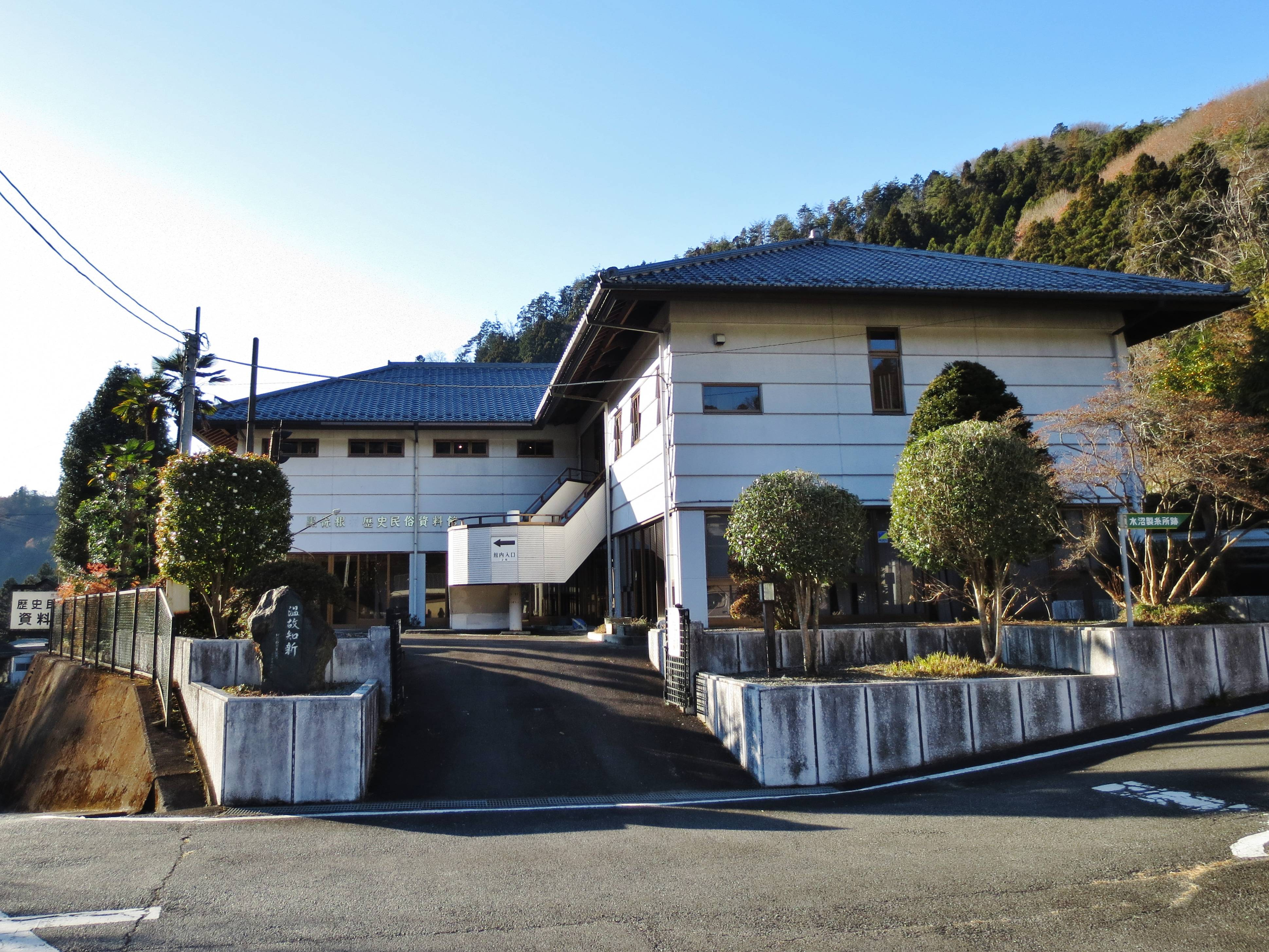 Kiryu city Kurohone Museum of History and Ethnicity.